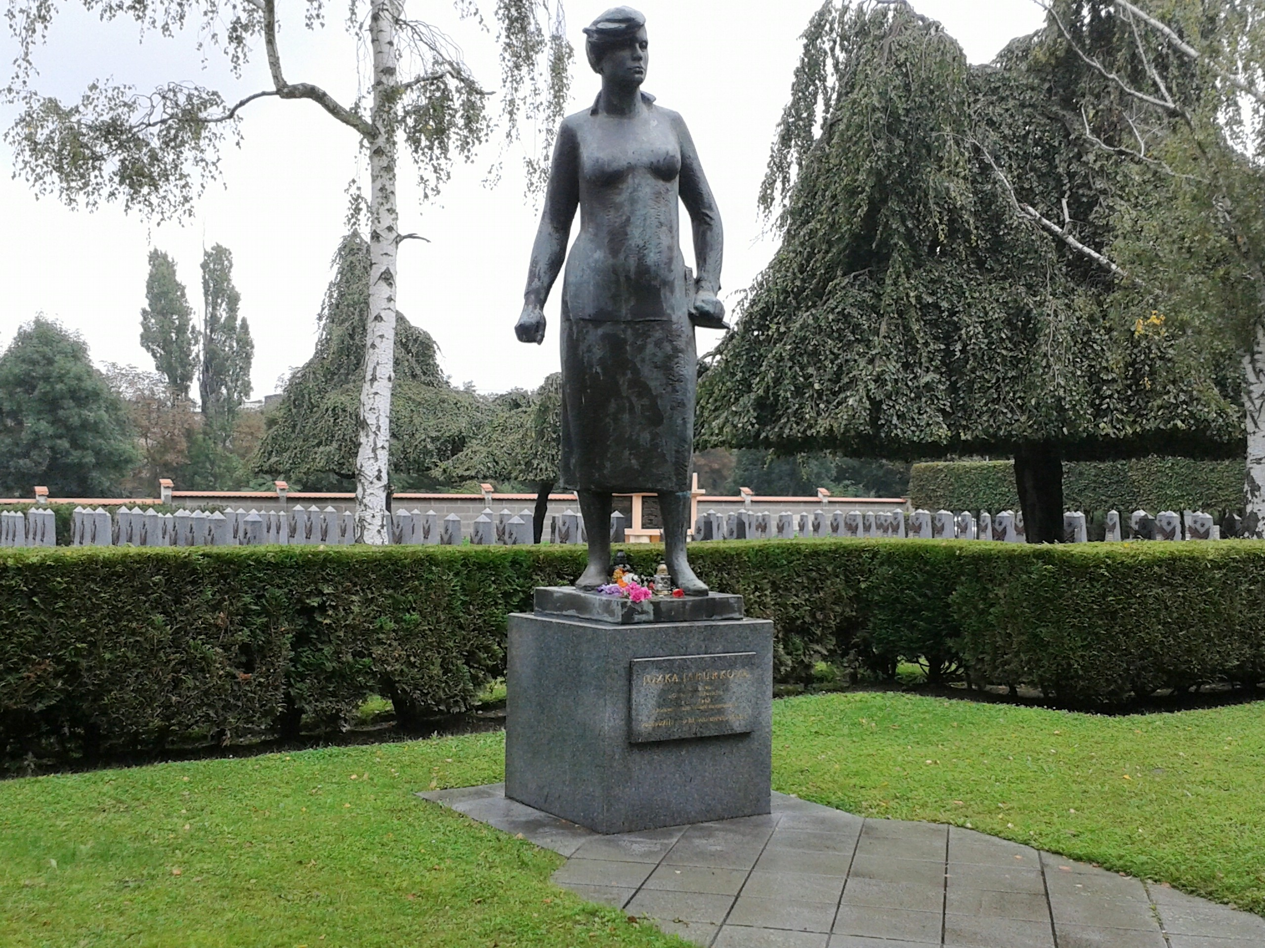 Above life bronze statue of the Czechoslovak leftist journalist and writer Jožka Jabůrková (*1896 - 1942) by Czech sculptor Vera Merhautová (*1921), a sculpture dated 1965, height 300 cm, location: Honorable military burial ground in Prague Olšanské cemeteries